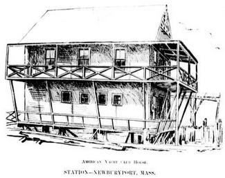 American Yacht Club House Newbury Port Mass c 1894